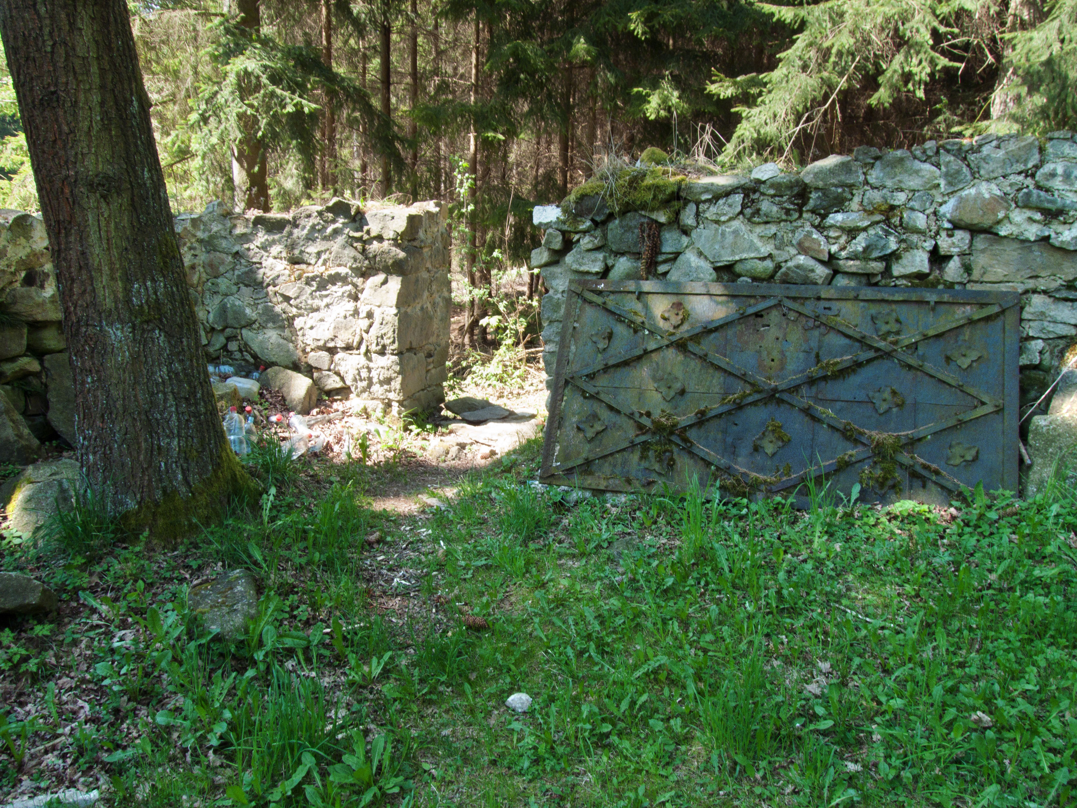 Entrance to the Jewish cemetery by the village of Hoštice, Strakonice District, Czech Republic, as seen from the inside